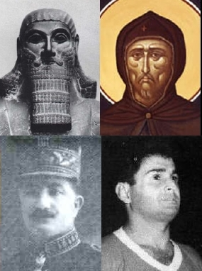 Modified version of Image:Assyrians.jpg presenting montage in two (shorter) rows rather than one. Licensing as at Image:Assyrians.jpg. From Image:Assyrians.jpg: Images: Image:Ashurbanipal.jpg (GFDL), [1] ([2]) (PD or GFDL - permission given), [3] ([4]) (PD), Image:Ammobabaold.jpg (GFDL)